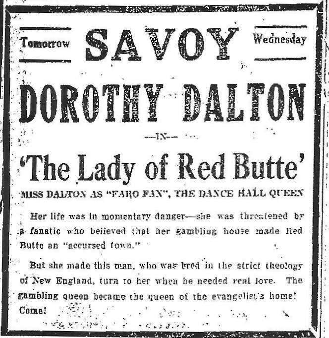 Newspaper advertisement for the film The Lady of Red Butte (1919).